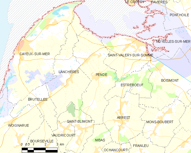 Map of French municipality Pendé